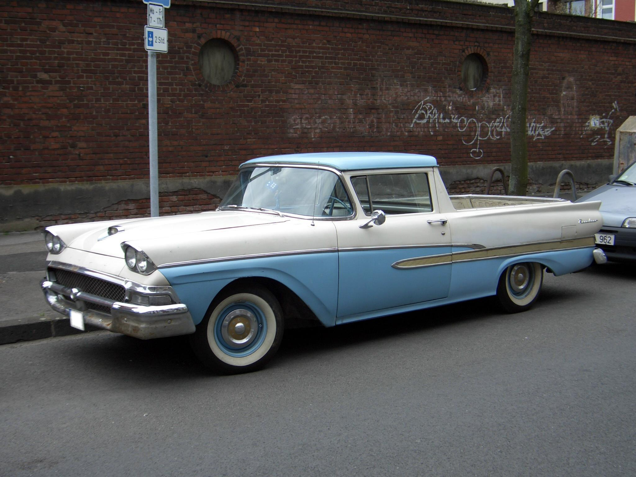 Ford Ranchero, 1958 model, seen in Duesseldorf, Germany